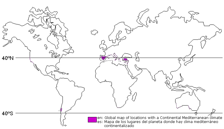 Global map of locations with a Continental Mediterranean climate.